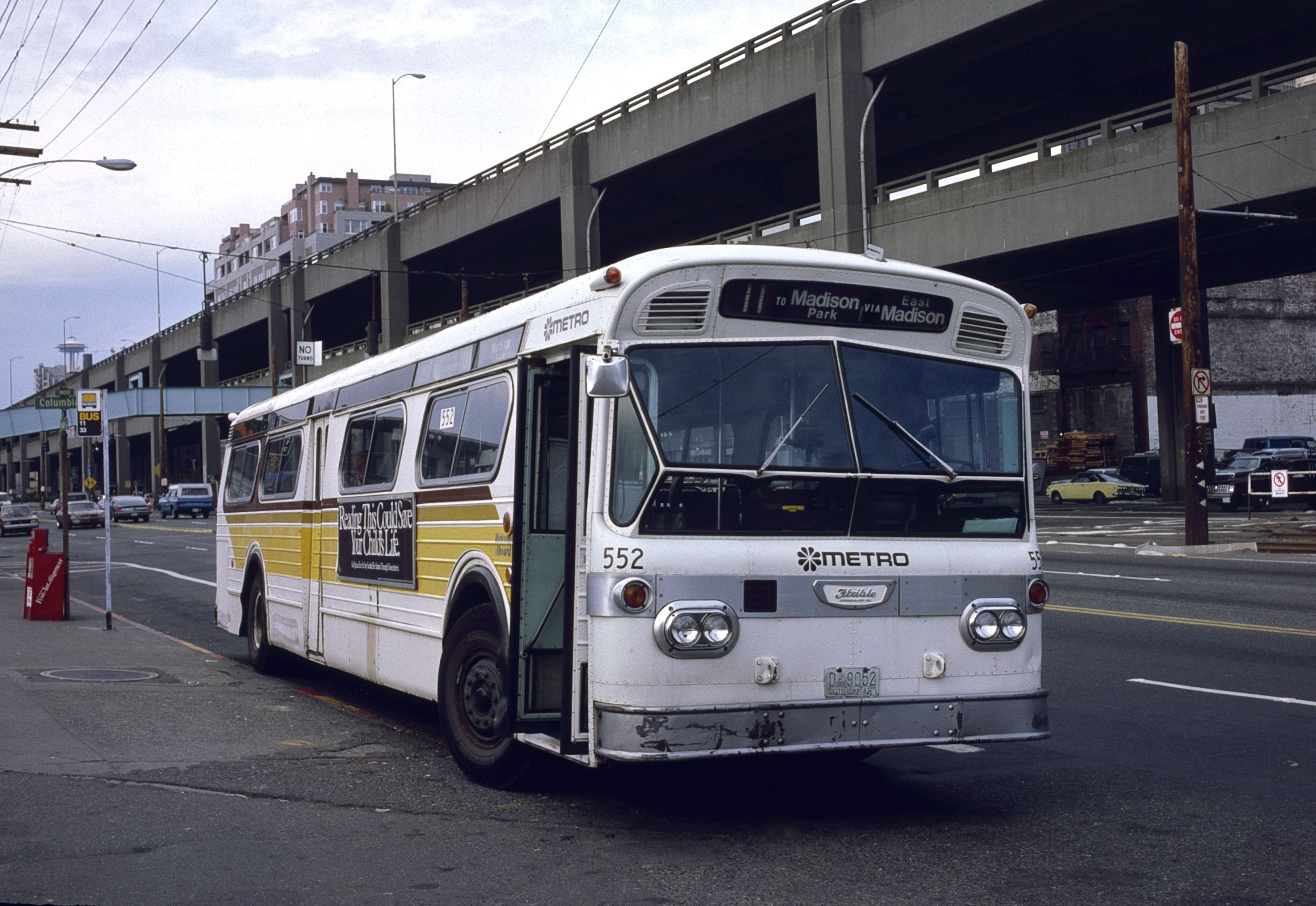 Seattle Metro Transit bus 552, a 1963 Flxible New Look bus, laying over on route 11 on the Seattle Waterfront, on Alaskan Way at Columbia Street, in 1985. Seattle's last Flxible buses (series 500–599) were retired in 1986.